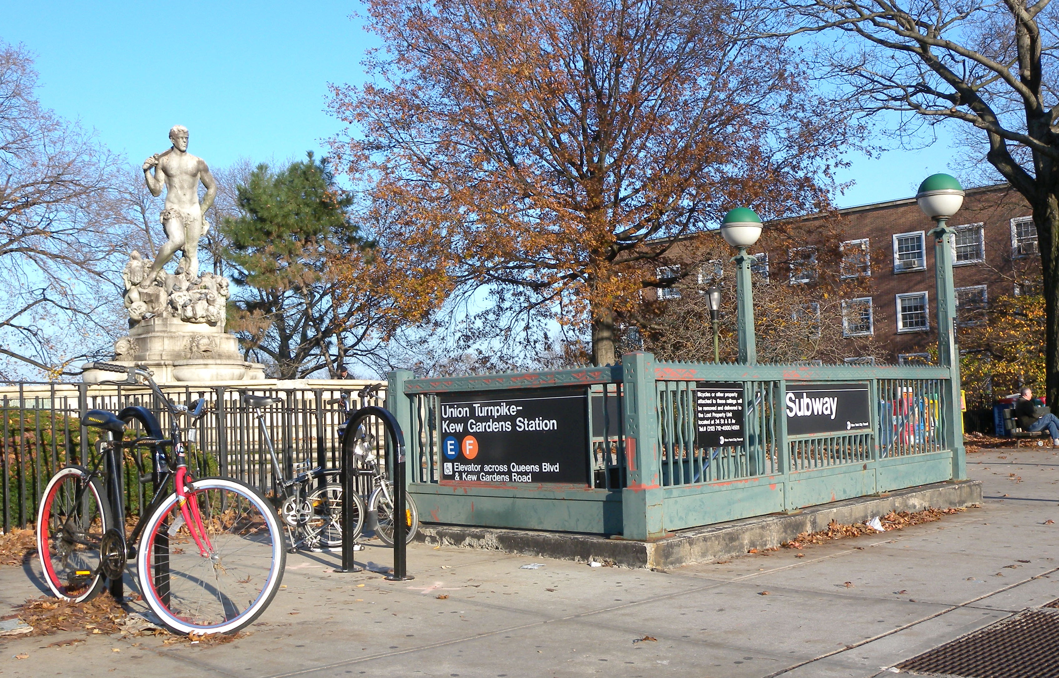 Looking northeast at Kew Gardens – Union Turnpike (IND Queens Boulevard Line) on a sunny afternoon.